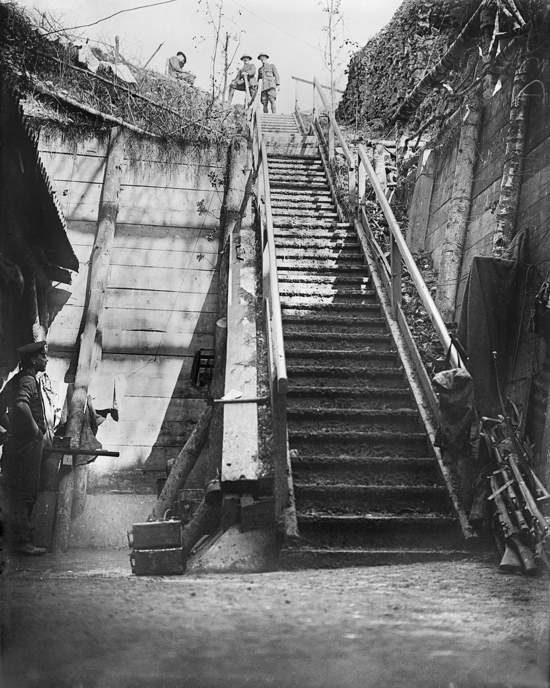 IWM caption : "The steps leading down to a huge German underground shelter at Bernafay Wood, near Montauban. The picture gives a good idea of the size and depth of many German dugouts on the Somme".